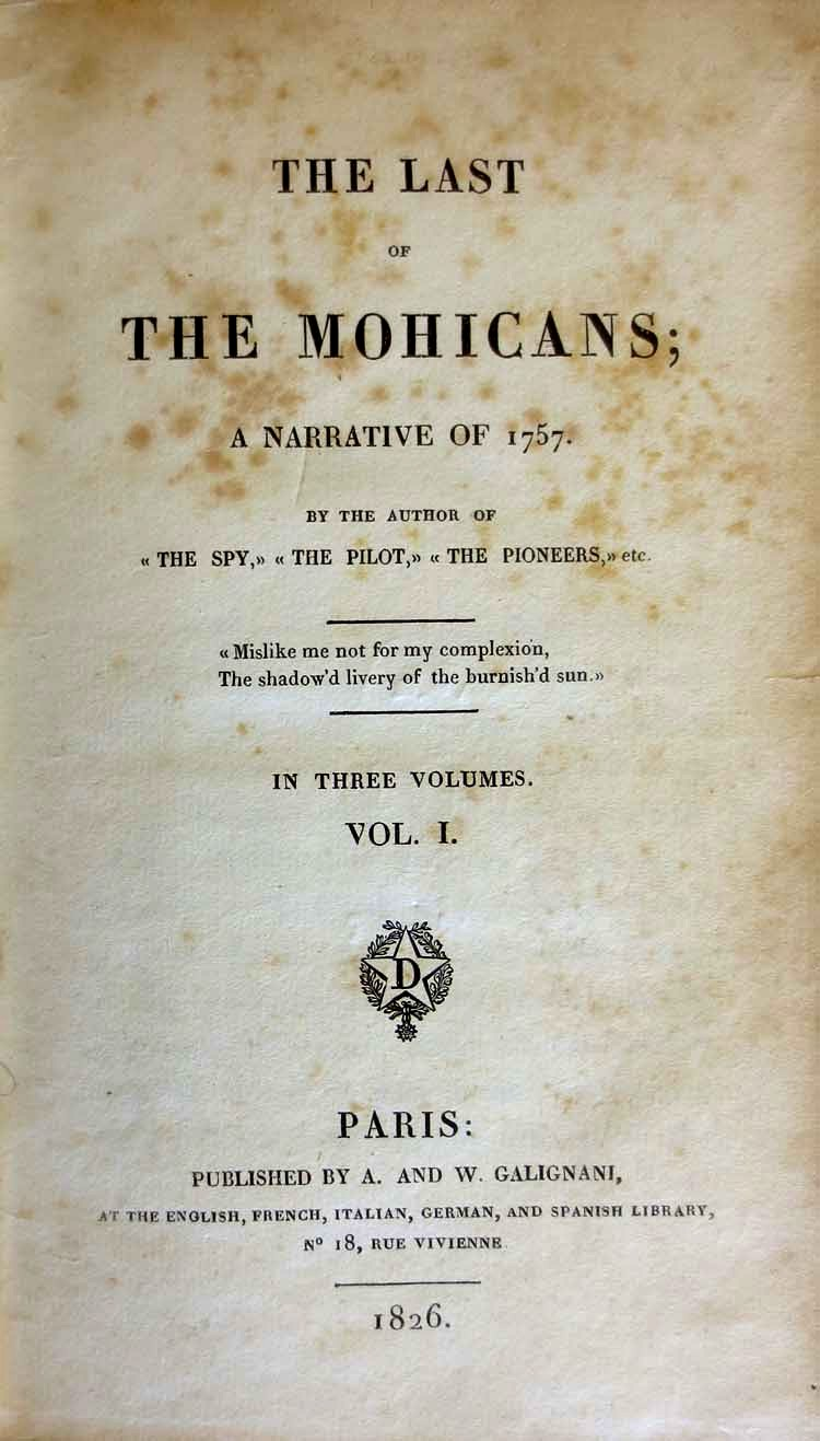 Cover of The Last of the Mohicans (1826), James Fenimore Cooper (1789-1851)